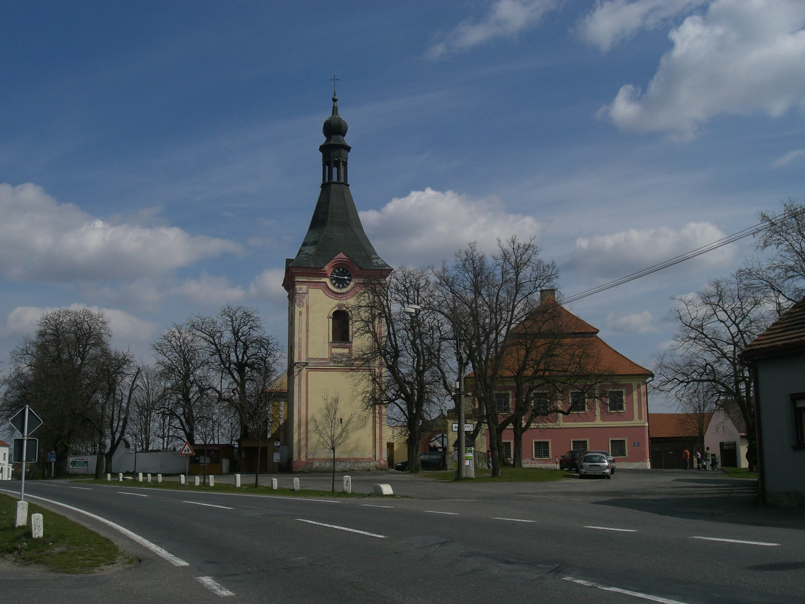 Záhoří village in the Písek District, Czech Republic. Church of Saint Michael